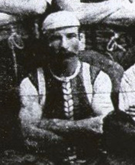 Photograph of Jim Dowdall in 1897.